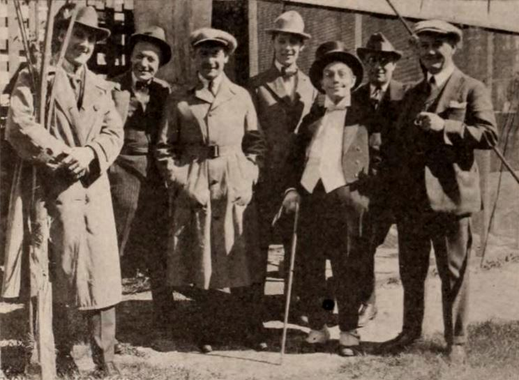 On the Christie Film Company lot: Al Christie, Charley Grapewin, Dick Dubby, Charles "Chic" Sale, Johnny Ray, Tom McNamara, and Ward Caulfield, on page 54 of the May 15, 1920 Exhibitors Herald.